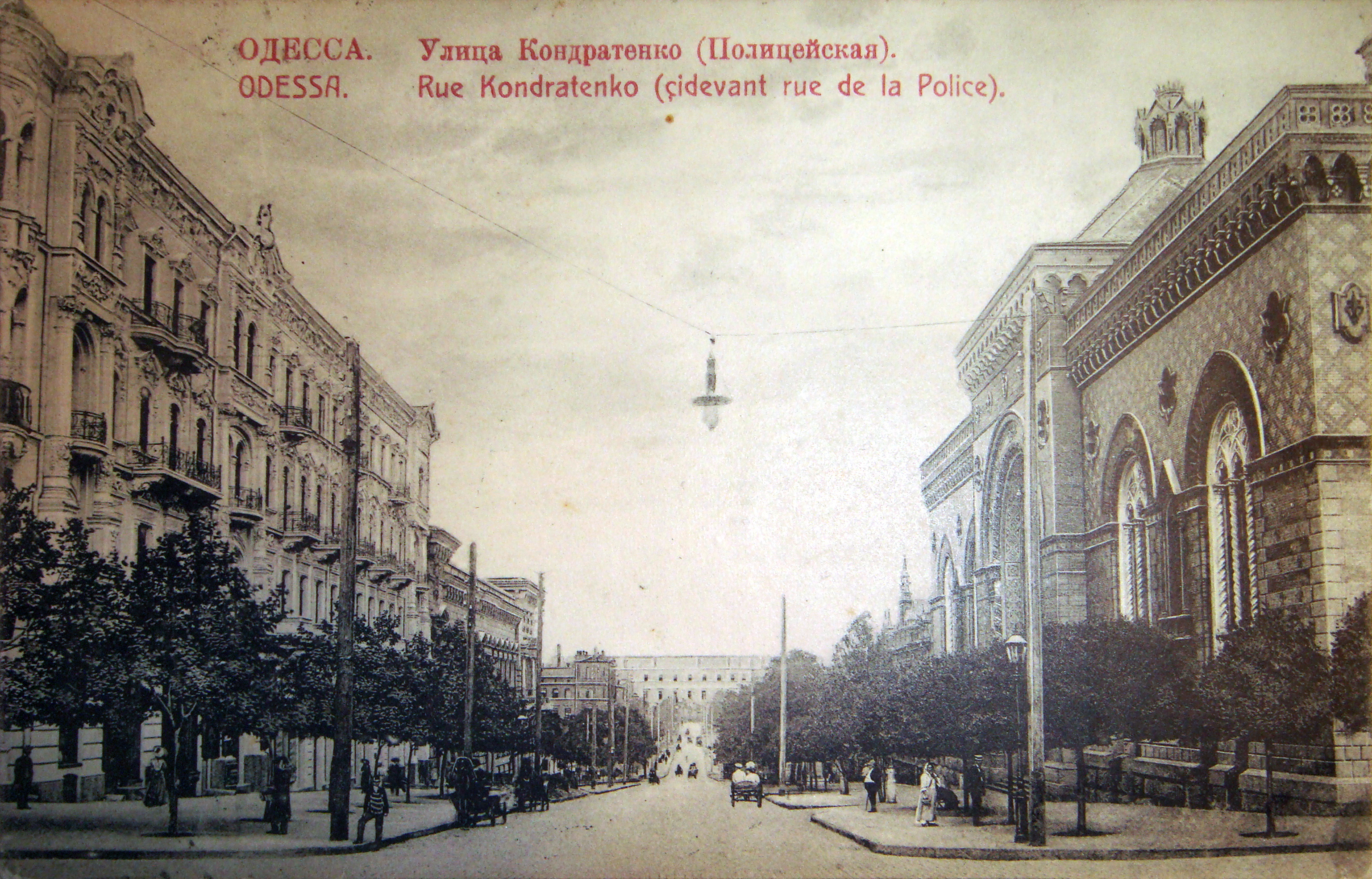 Odessa CP of early XX century with view of Kondratenko street (now Ivan Bunin street)